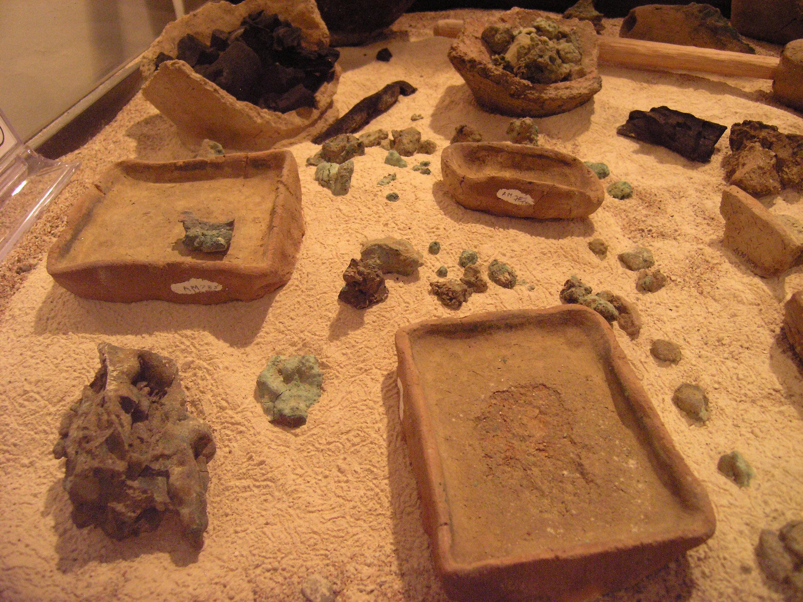 Aqaba Archaeological Museum; metallurgical finds from Tall Hujayrat al-Ghuzlan; Copper ore, slag, crucibles and moulds for the production of copper ingots; Chalkolithic